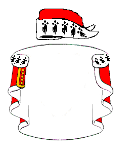 scotish Barony Robe and_Chapeau